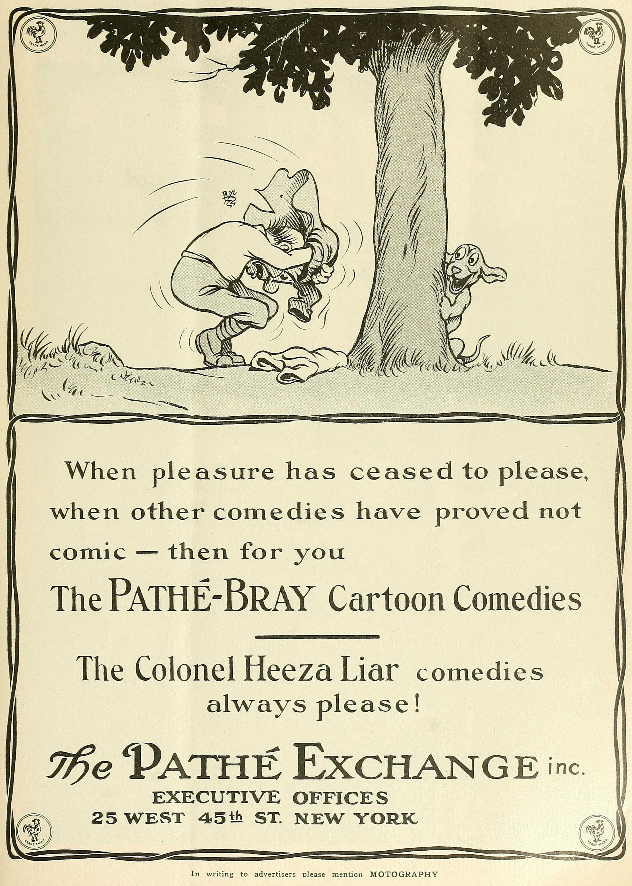 Colonel Heeza Liar ad, Motography July 24th, 1915, p. 7